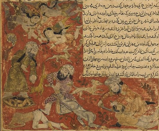 Folio from a Tarikhnama (Book of history) by Balami